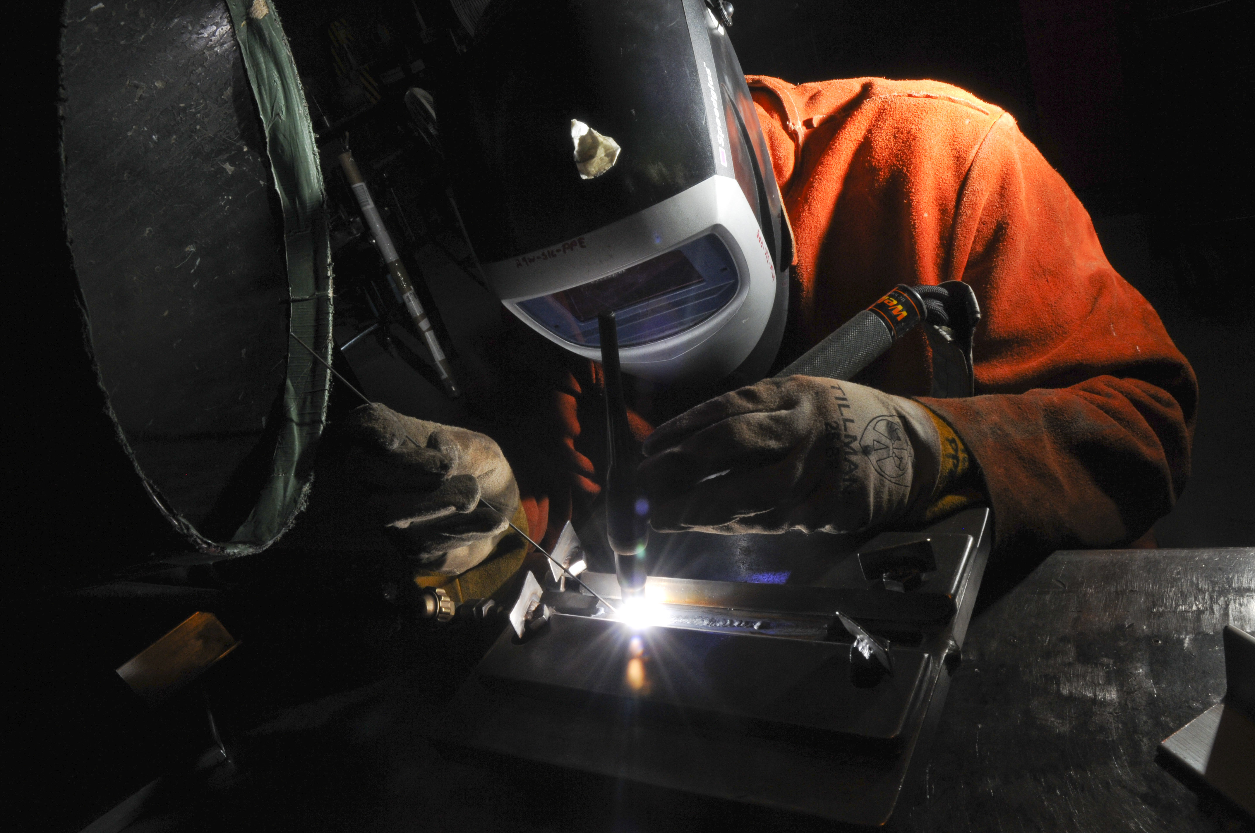 SIGONELLA, Sicily (July 15, 2009) Aviation Support Equipment Technician Airman Anthony Hammond, from Ft. Washington, Md. assigned to the aircraft intermediate maintenance department at Naval Air Station Sigonella, performs tungsten inert gas welding during a training evolution. NAS Sigonella provides logistical support for the u.S. 6th Fleet and NATO forces in the Mediterranean. (U.S. Navy photo by Mass Communication Specialist 2nd Class Jason T. Poplin/Released)